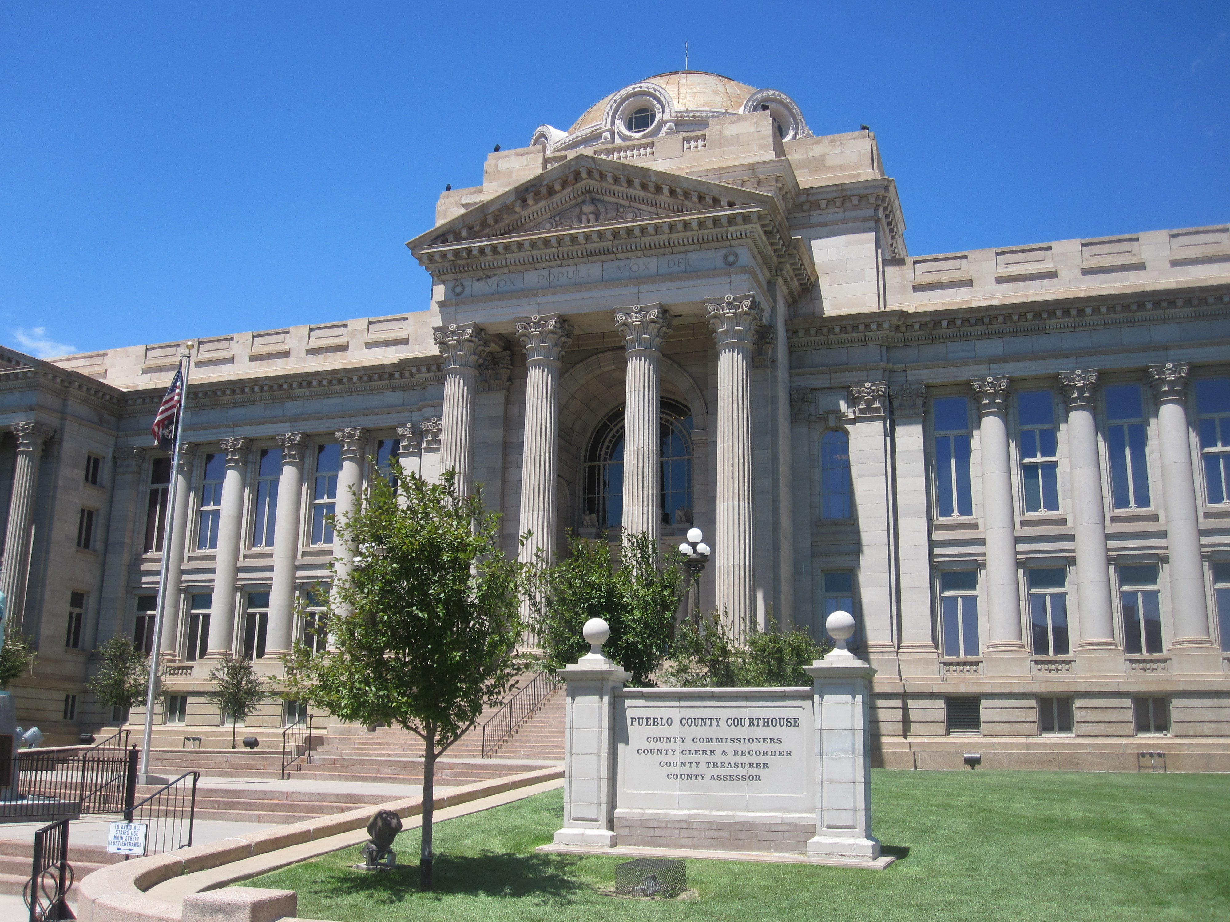 I took photo with Canon camera in Pueblo, CO.